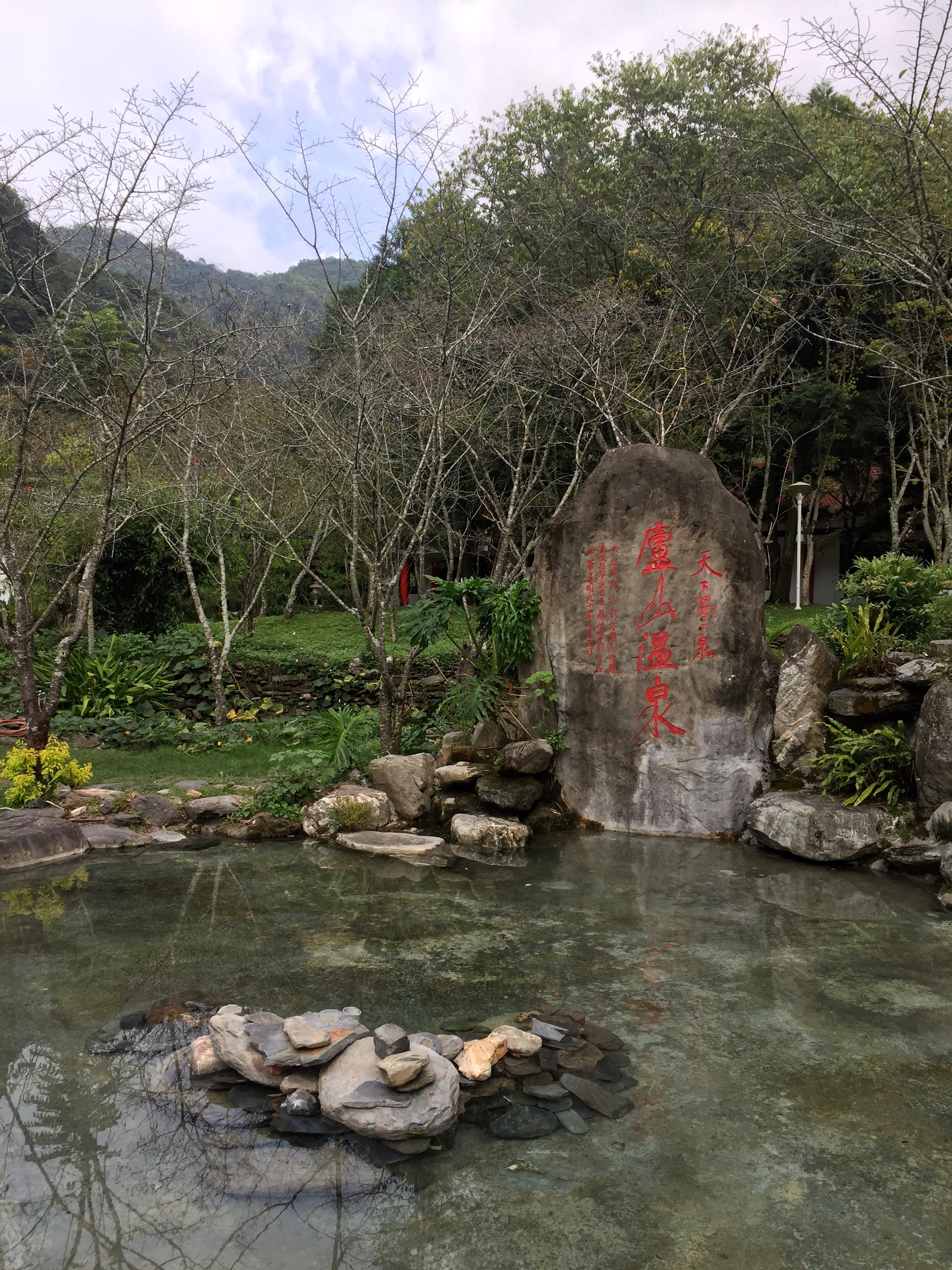 Stele set up at Lushan Hot Spring.